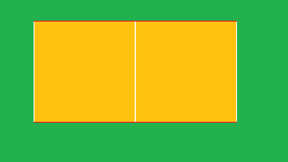 sideline of volleyball